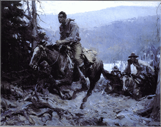 A painting known as A Charge to Keep, a favorite of U.S. President George W. Bush. According to Harpers Magazine, "The artist, W.H.D. Koerner, executed it to illustrate a Western short story entitled 'The Slipper Tongue,' published in The Saturday Evening Post in 1916." (However, according to the Google Books scan of this issue, the painting that accompanies 'The Slipper Tongue' is different.) Since it was published before 1923 in the United States, it is in the public domain.